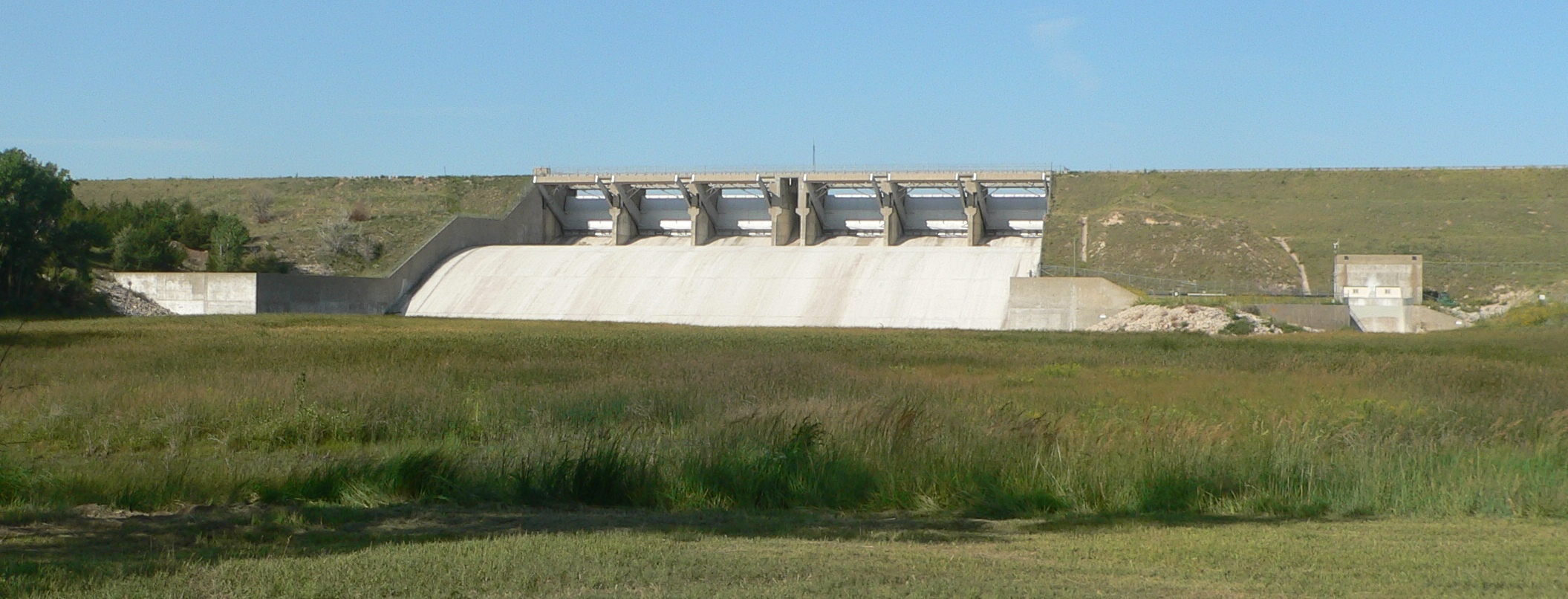 Outlet structure of Enders Dam in Chase County, Nebraska; seen from the east (downstream).